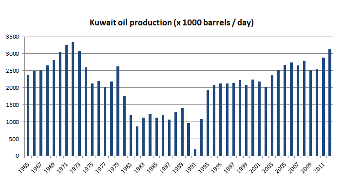 Kuwait oil production between 1965 and 2012 in 1000 barrels per day. Source: BP statistical review of world energy, 2013